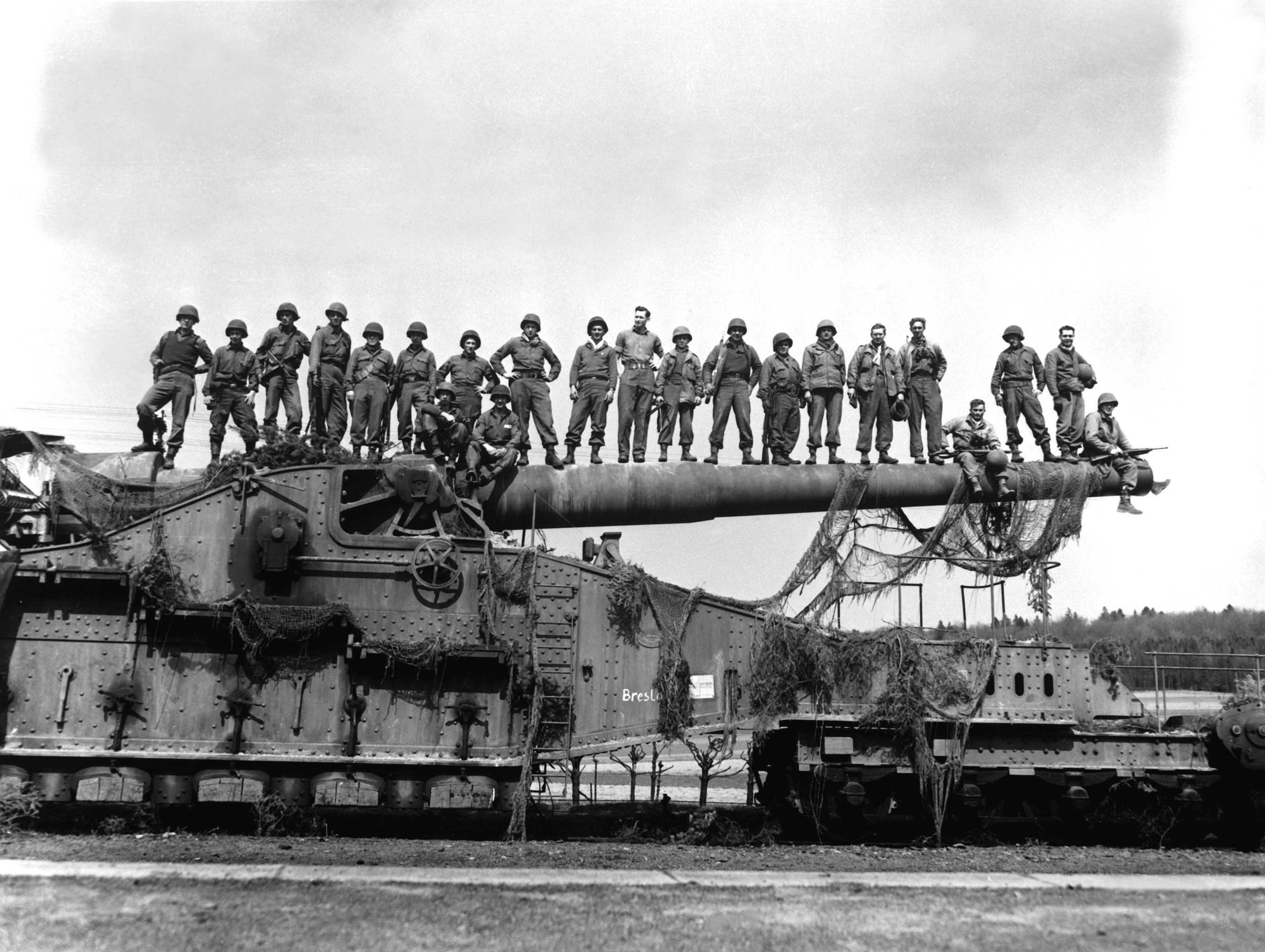 A 274 mm/45 Model 1887/1893 railroad gun captured by U.S. troops near Rentwertshausen, County of Schmalkalden-Meiningen, Thuringia, Germany, on 10 April 1945. The 274.4 mm guns were originally French naval 10.8 inch guns of pre-dreadnaught battleships used as railroad guns by the French during the First World War. This gun was captured by the German Army in 1940. Original caption: "Mammoth 274-mm railroad gun Captured in the U.S. Seventh Army advance near Rentwertshausen easily holds these 22 men lined up on the barrel. Although of an 1887 French design, the gun packs a powerful wallop. April 10, 1945."